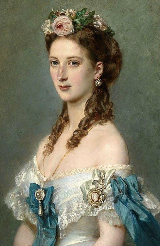 Alexandra of Denmark - Queen consort of the United Kingdom and the British Dominions; Empress consort of India